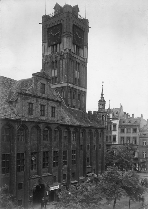 Old Town Hall in Toruń, photograph by Henryk Poddębski, probably circa 1920-1930.